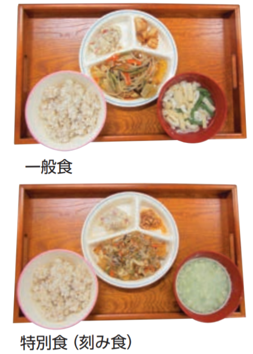 Meals provided in prisons